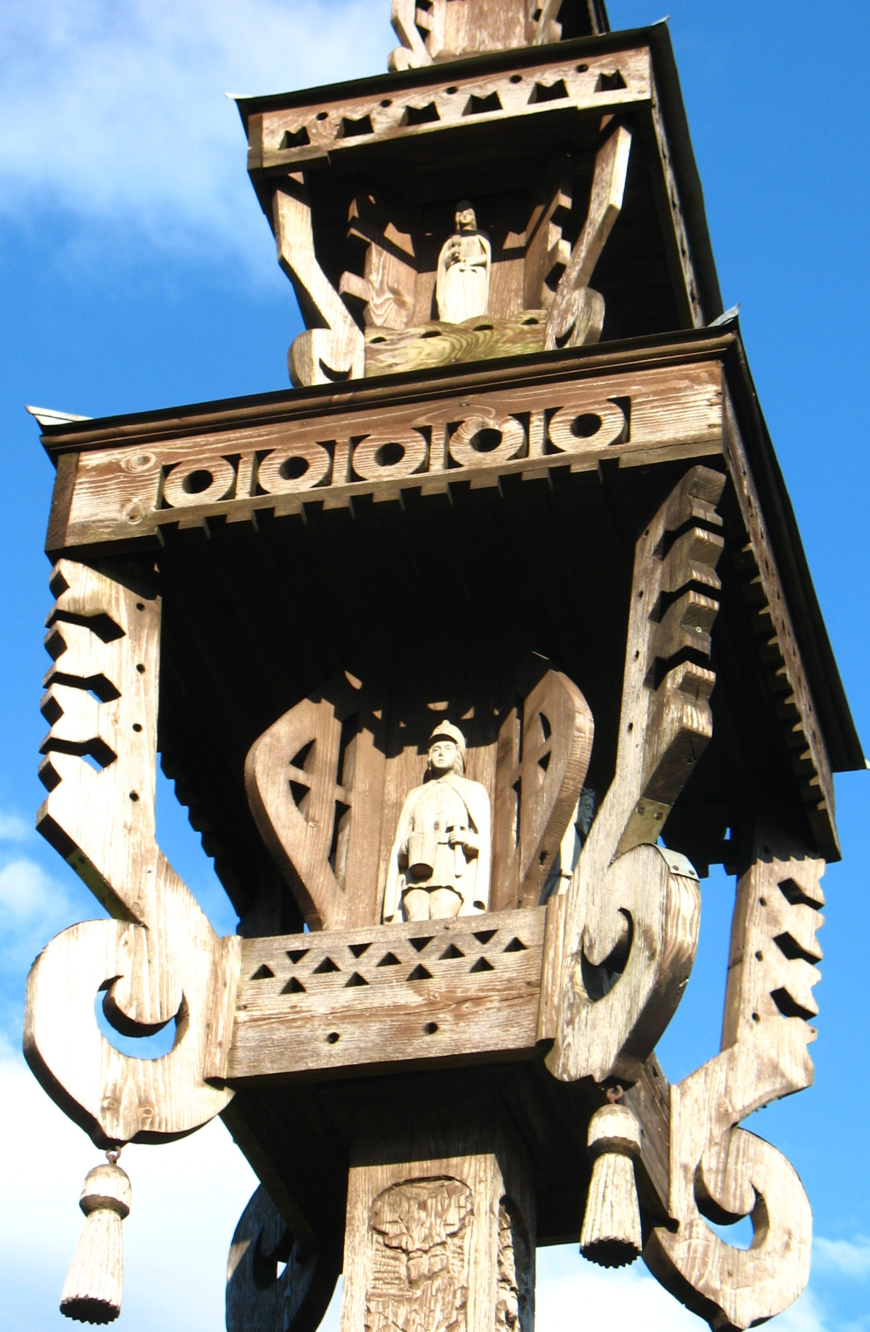 Šaulių kryžius, Jonava